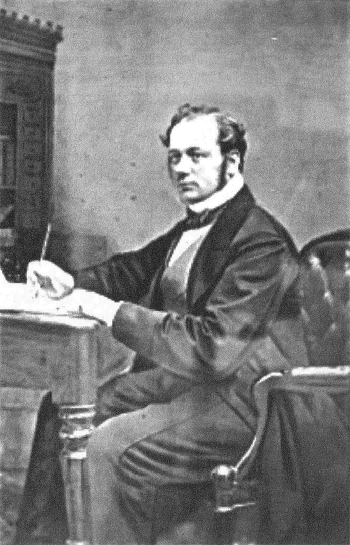 English engineer Thomas Evans Blackwell (1819–1863) depicted during his latter career as president of the Grand Trunk Railroad in Canada. He returned to the UK the following year.